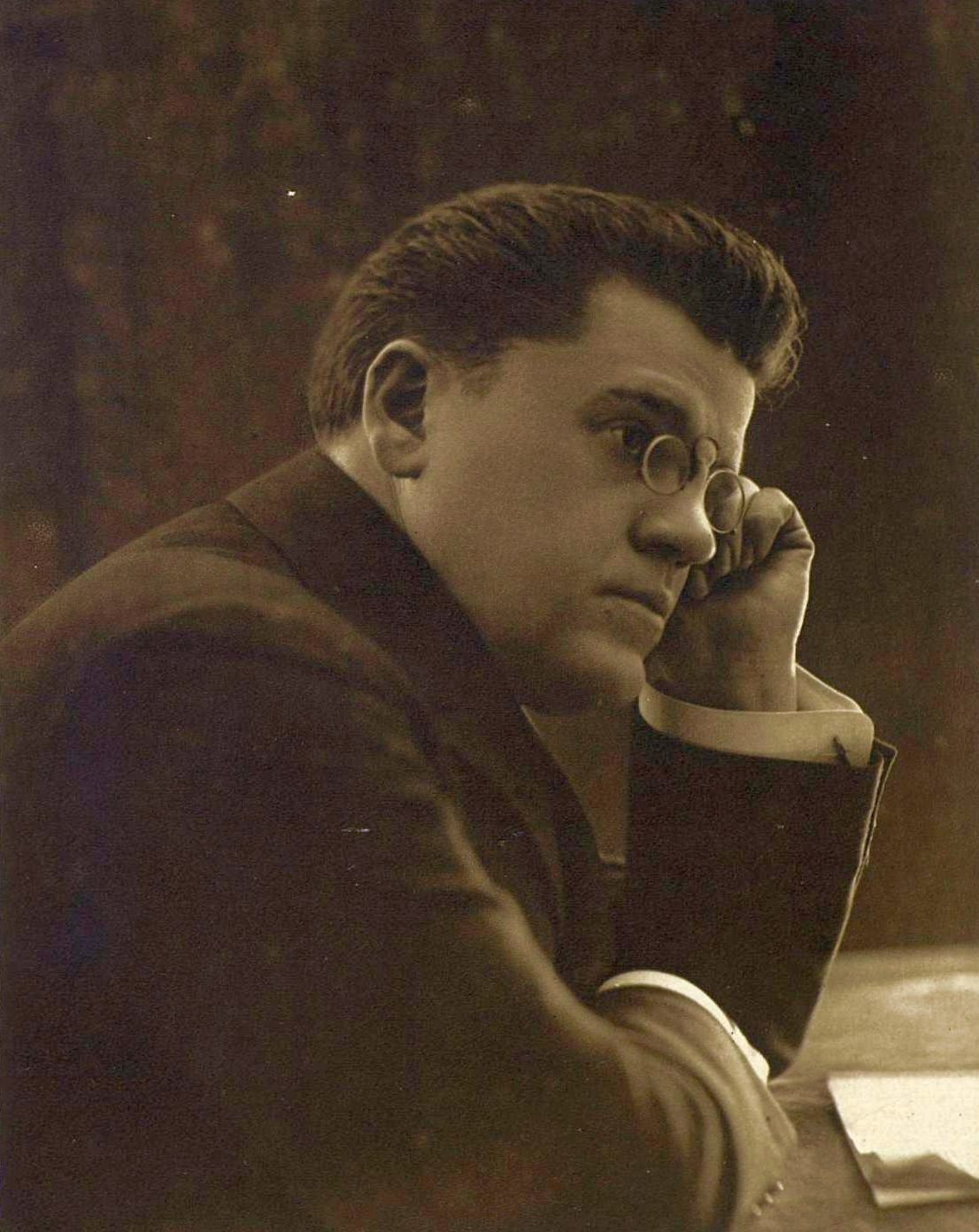 Ivan Moskvin